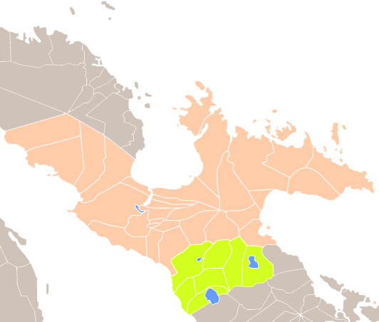 Camarines Sur 5th congressional district.